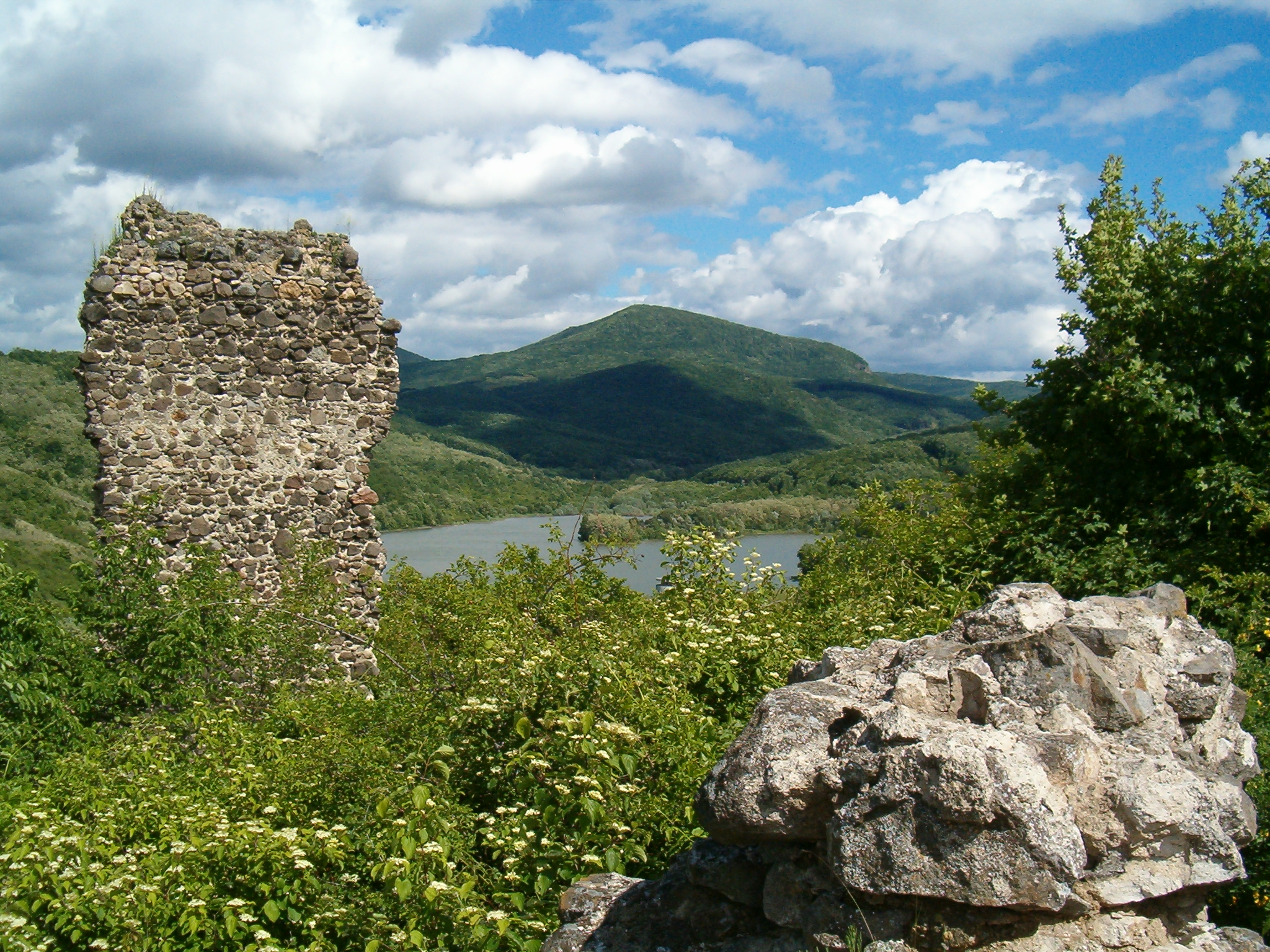 Ruins of the Castle Hasznos in the Mátra Mts. with the peak of Mount Óvár (754 m) in the background (Hungary)